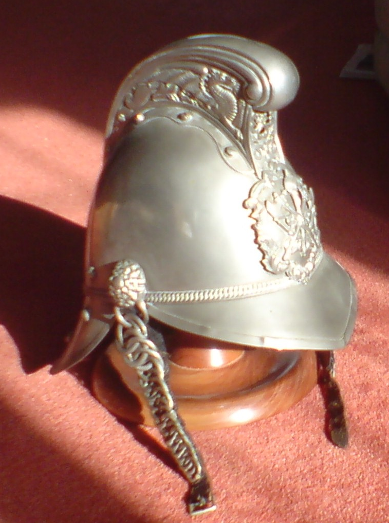 A Victorian Merryweather pattern fireman's helmet. Once owned by Isaac Rogers Tranter, Fire Chief in Thornaby-on-Tees in England. This is a cropped version of a picture made by a family member and passed to uploader, who is also a descendant of the owner.